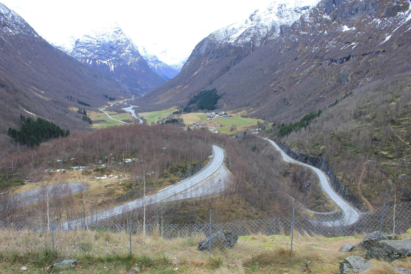 Hjelledalen, seen from the Strynefjellet road